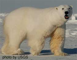 A male polar bear